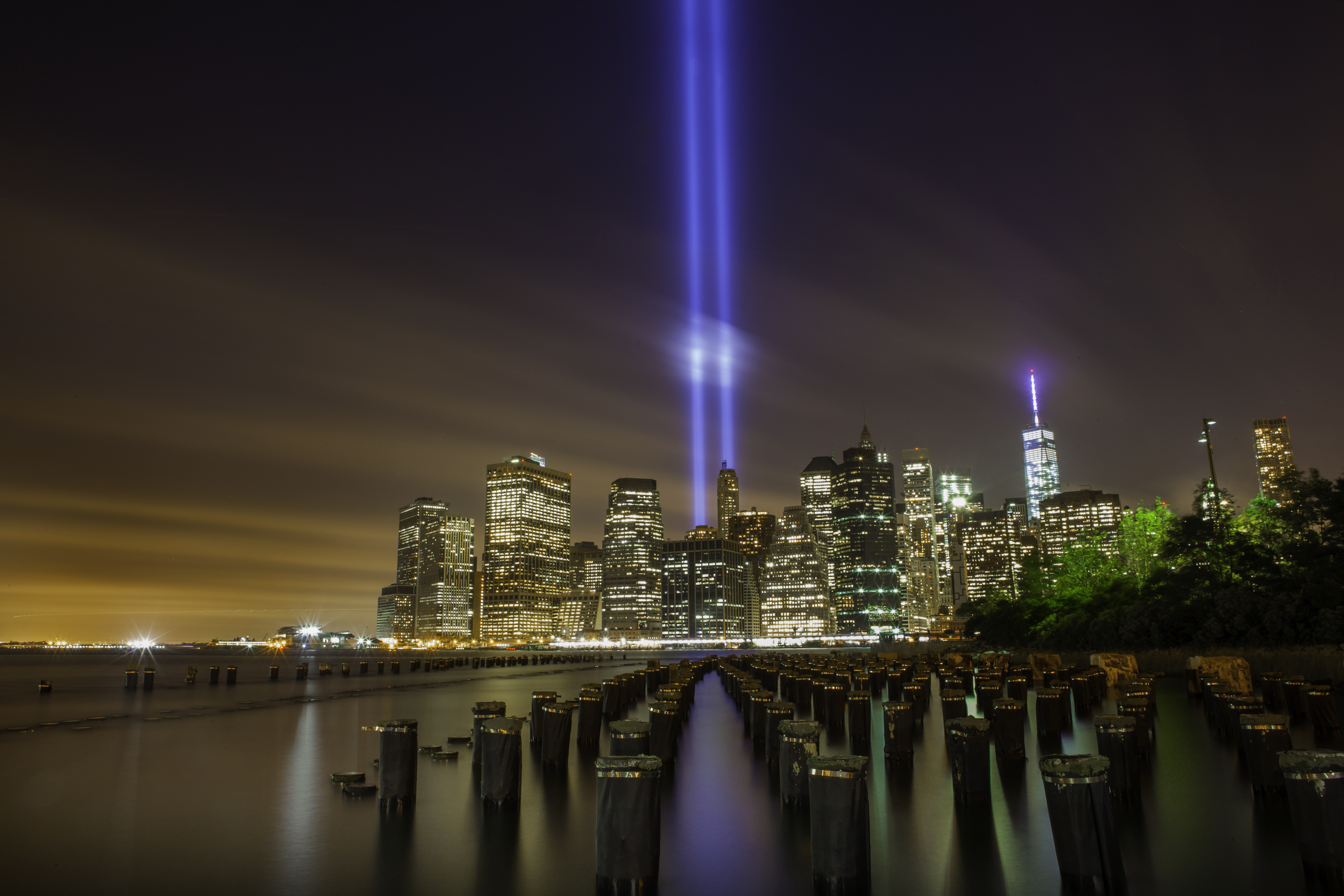 September 11th Memorial Tribute In Light 2014 New York City